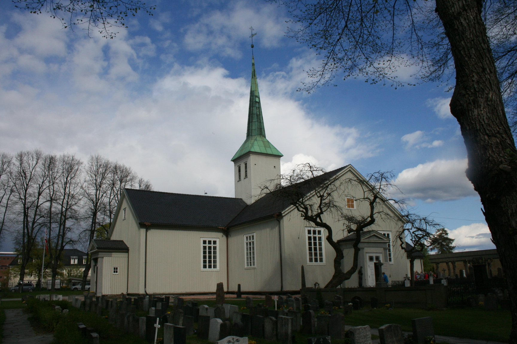 Strømsø church, Drammen, Norway Norsk (bokmål): Strømsø kirke,Drammen Norway